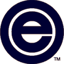 Eatons (division of Sears Canada) logo for use in Eaton's article Centre for Language Training & Assessment (CLTA) Category:Eaton's Category:Retail logos History of Image:Eatons-logo.gif 2007-05-02T01:35:56Z Eastmain (Talk